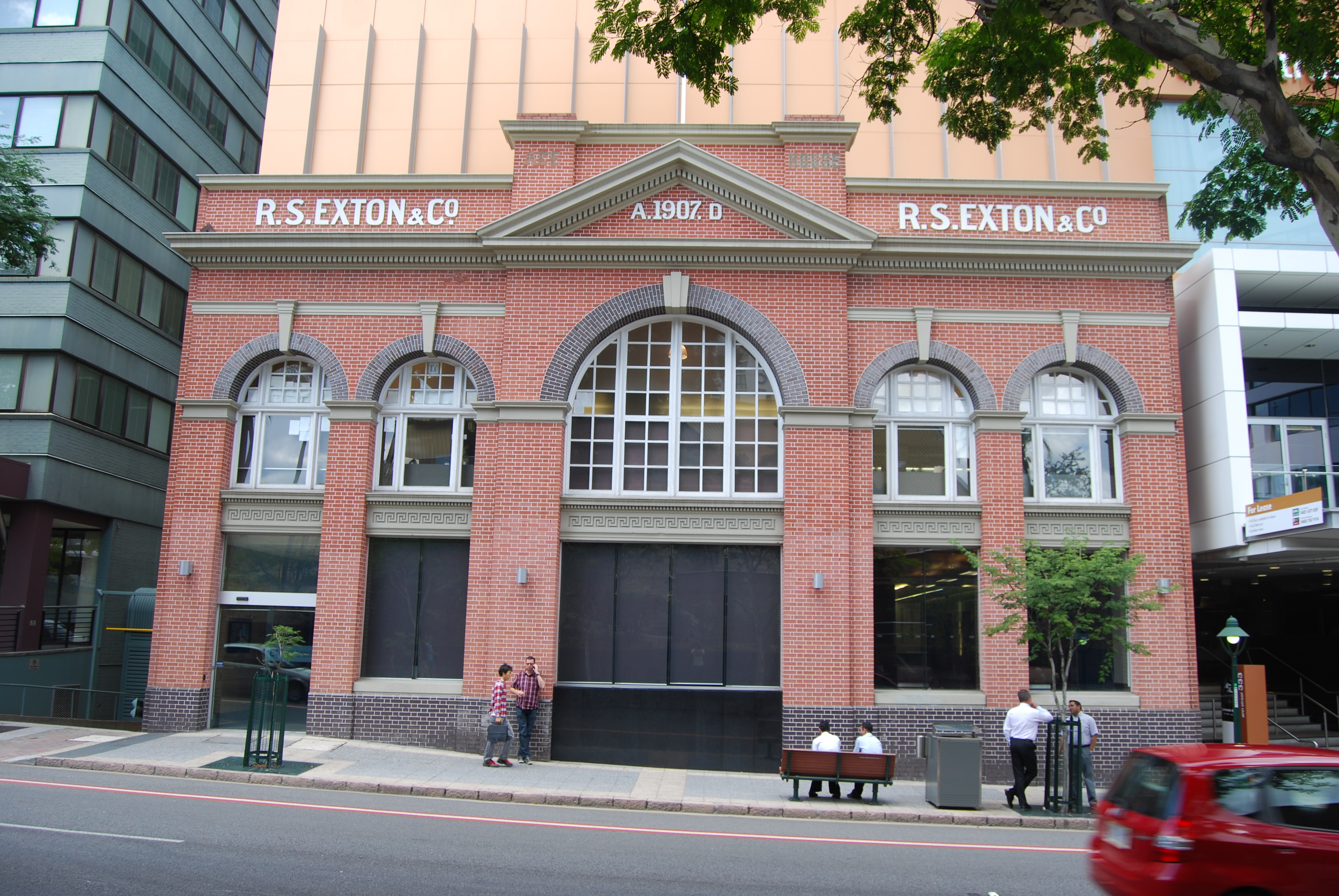 333 Ann Street: Former RS Exton and Co Building by Lange Powell